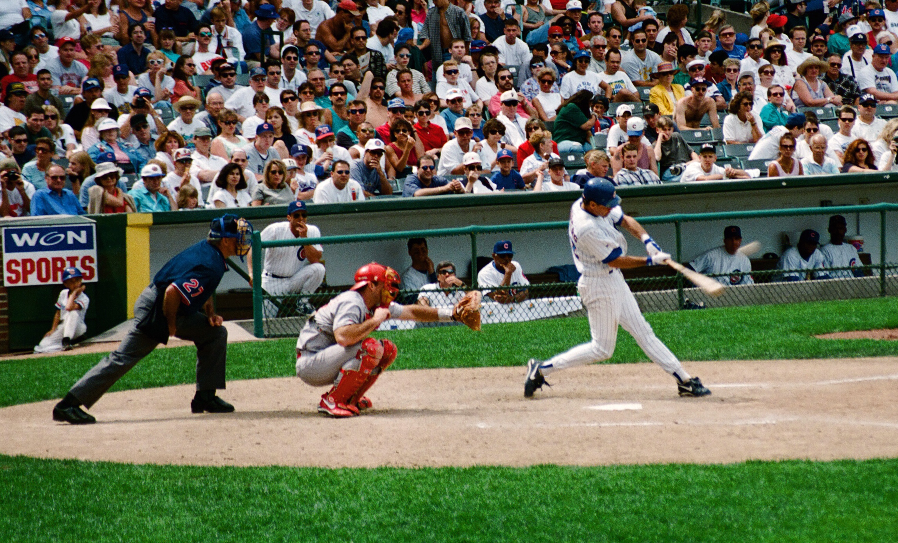 Ryne Sandberg hitting a double at Wrigley Field.